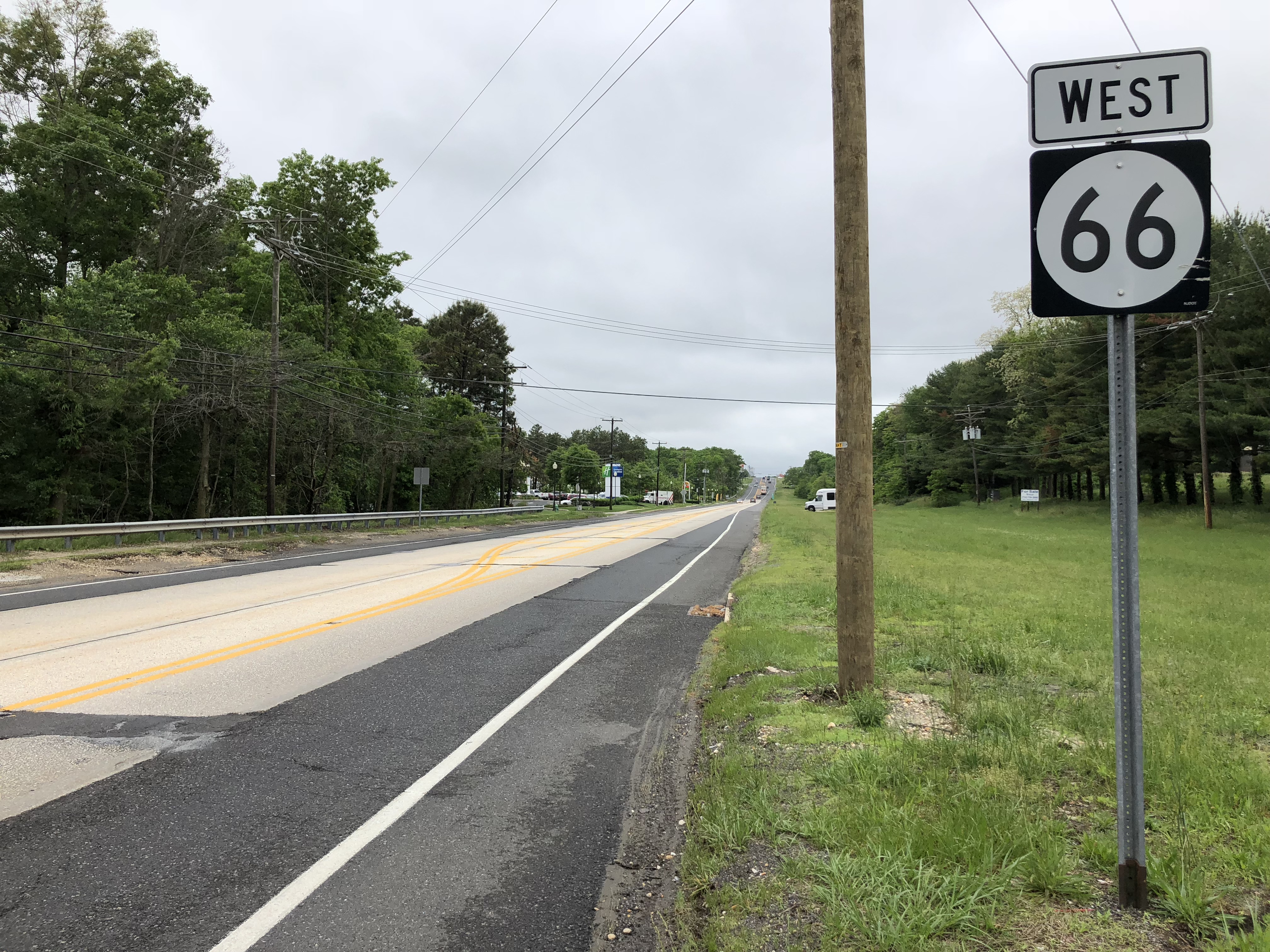 View west along New Jersey State Route 66 at Green Grove Road in Neptune Township, Monmouth County, New Jersey